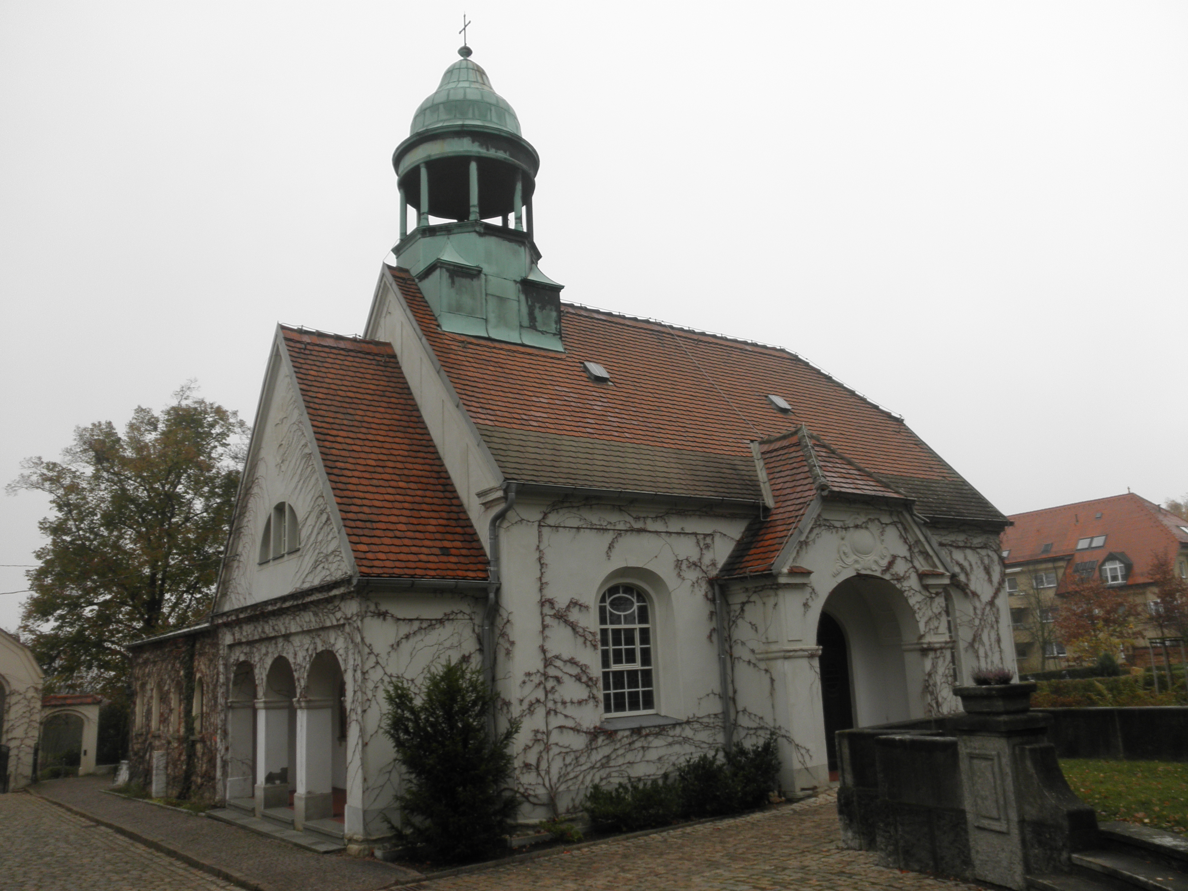 Cemetery Church in Eisenberg (Thüringen) in Thuringia